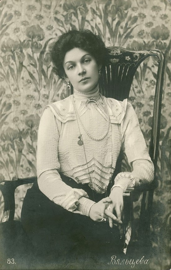 Russian Singer Anastasiya Vyaltseva (1871-1913)